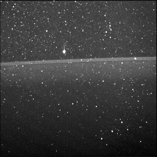 As NASA's Juno spacecraft flew through the narrow gap between Jupiter's radiation belts and the planet during its first science flyby, Perijove 1, on August 27, 2016, the Stellar Reference Unit (SRU-1) star camera collected the first image of Jupiter's ring taken from the inside looking out. The bright bands in the center of the image are the main ring of Jupiter's ring system. While taking the ring image, the SRU was viewing the constellation Orion. The bright star above the main ring is Betelgeuse, and Orion's belt can be seen in the lower right. Juno's Radiation Monitoring Investigation actively retrieves and analyzes the noise signatures from penetrating radiation in the images of the spacecraft's star cameras and science instruments at Jupiter. NASA's Jet Propulsion Laboratory manages the Juno mission for the principal investigator, Scott Bolton, of Southwest Research Institute in San Antonio. Juno is part of NASA's New Frontiers Program, which is managed at NASA's Marshall Space Flight Center in Huntsville, Alabama, for NASA's Science Mission Directorate. Lockheed Martin Space Systems, Denver, built the spacecraft. Caltech in Pasadena, California, manages JPL for NASA. More information about Juno is online at and Uploader's note: the original NASA image has been modified by converting from TIFF to JPEG formst.